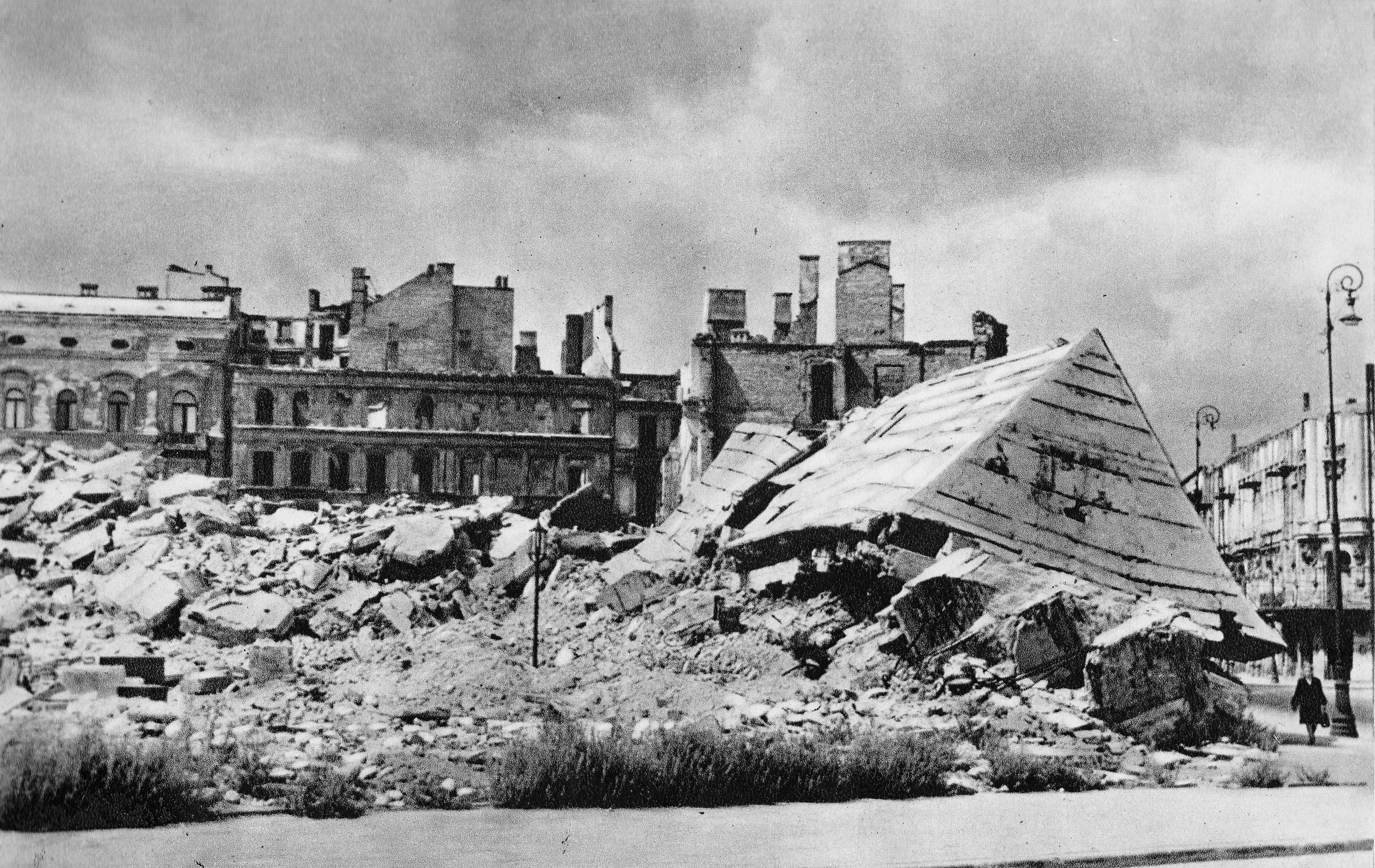 Destoryed Brühl Palace in Warsaw